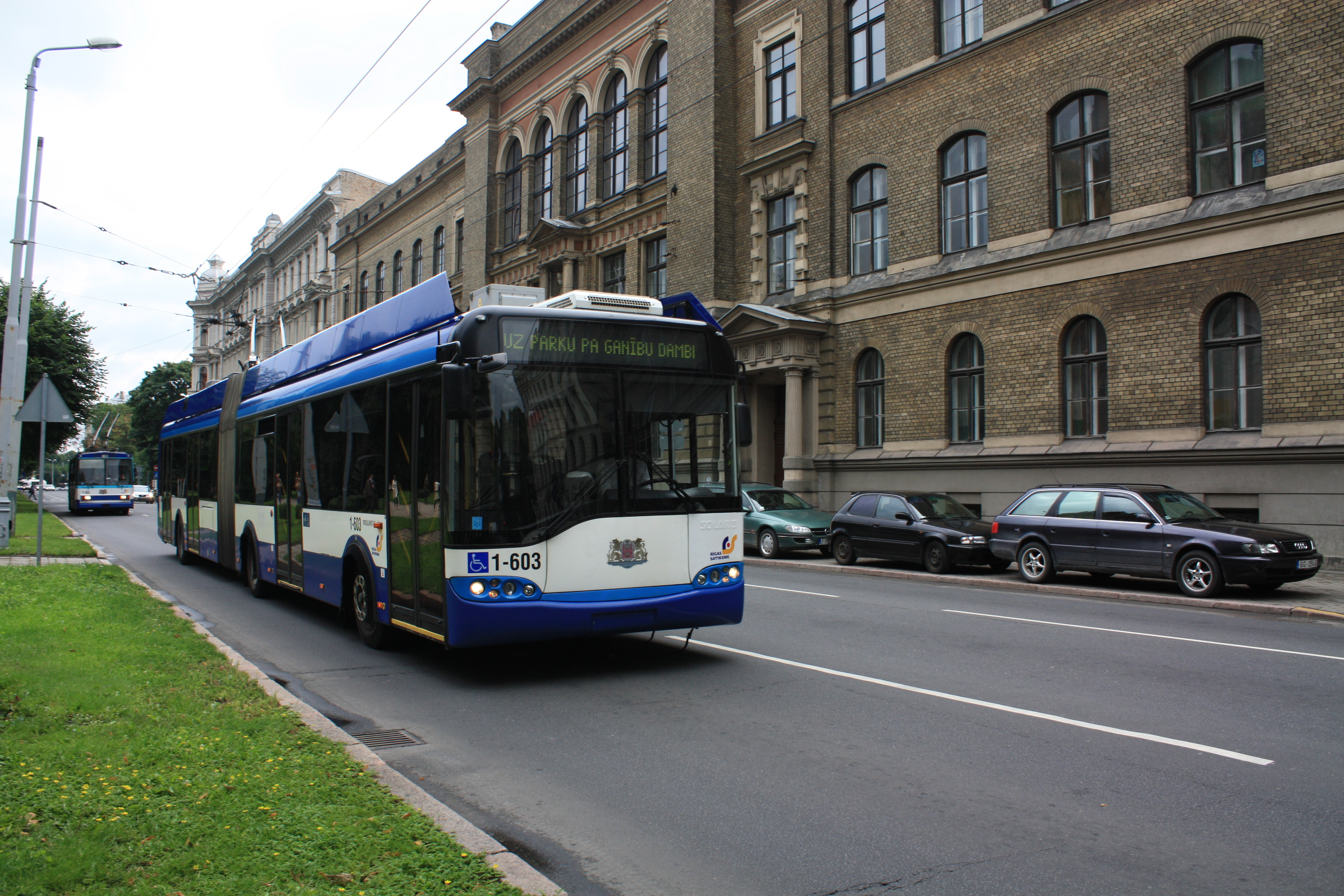 Trolleybus Solaris on Kalpaka Bulvaris in Riga, Latvia